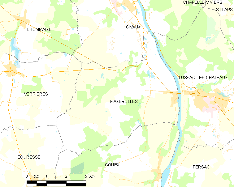 Map of French municipality Mazerolles